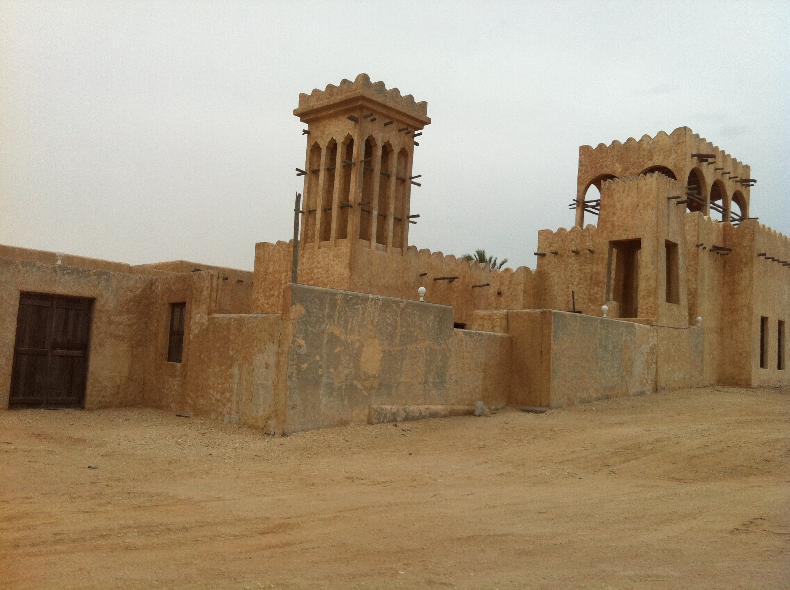 A shot of the exterior of Zekreet Fort.